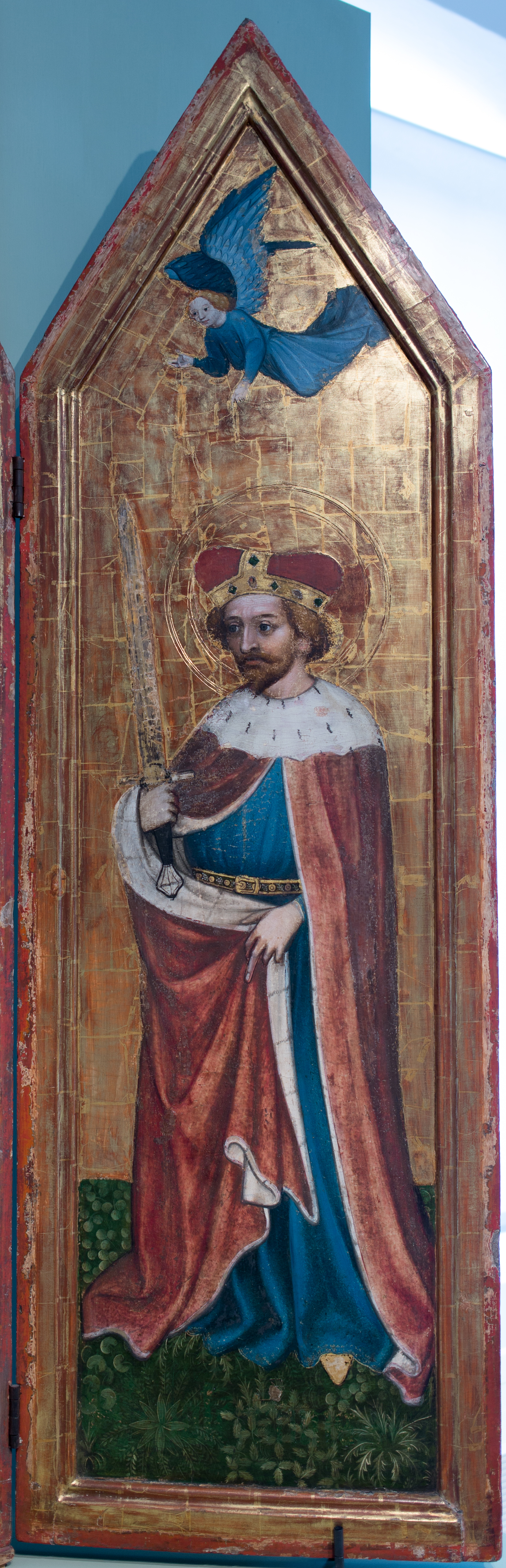 Meister des Cadolzburger Altars Cadolzburger Altar, um 1425/14301436 zog sich Kurfürst Friedrich I. (1371–1440) auf die fränkische Cardolzburg zurück und stiftete der Pfarrkirche diesen Altar. Die Mitteltafel zeigt ihn und seine Frau Elisabeth von Bayern-Landshut (1383–1442) unter der Kreuzigungsgruppe. Die frühchristlichen Märtyrer Cäcilie und Valerian nehmen die Seitenflügel ein, eine Verkündigungsszene die Rückseite. Der Altar ist eines der frühesten Beispiele für eine Kunstauftrag der Brandenburgischen Kurfürsten.